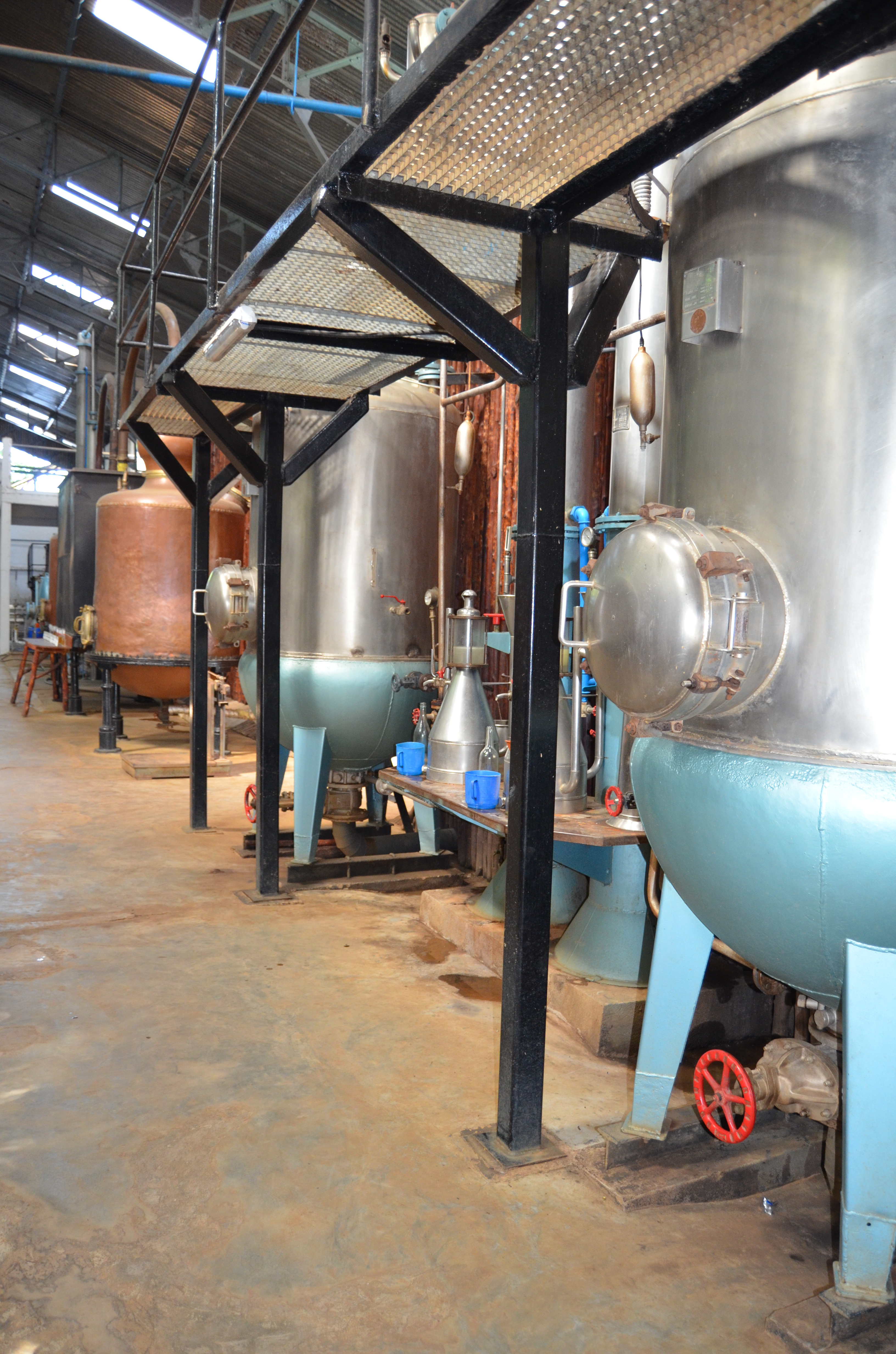 Tanks for the essential oil of ylang-ylang Nosy Be.